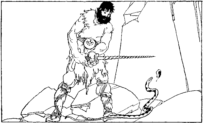 An illustration by Willy Pogany from a chapter from Children of Odin entitled "Odin wins for men the magic mead". No title otherwise given for the work. Odin, in the form of a serpent, with the jötunn Baugi, who is holding the drill Rati.